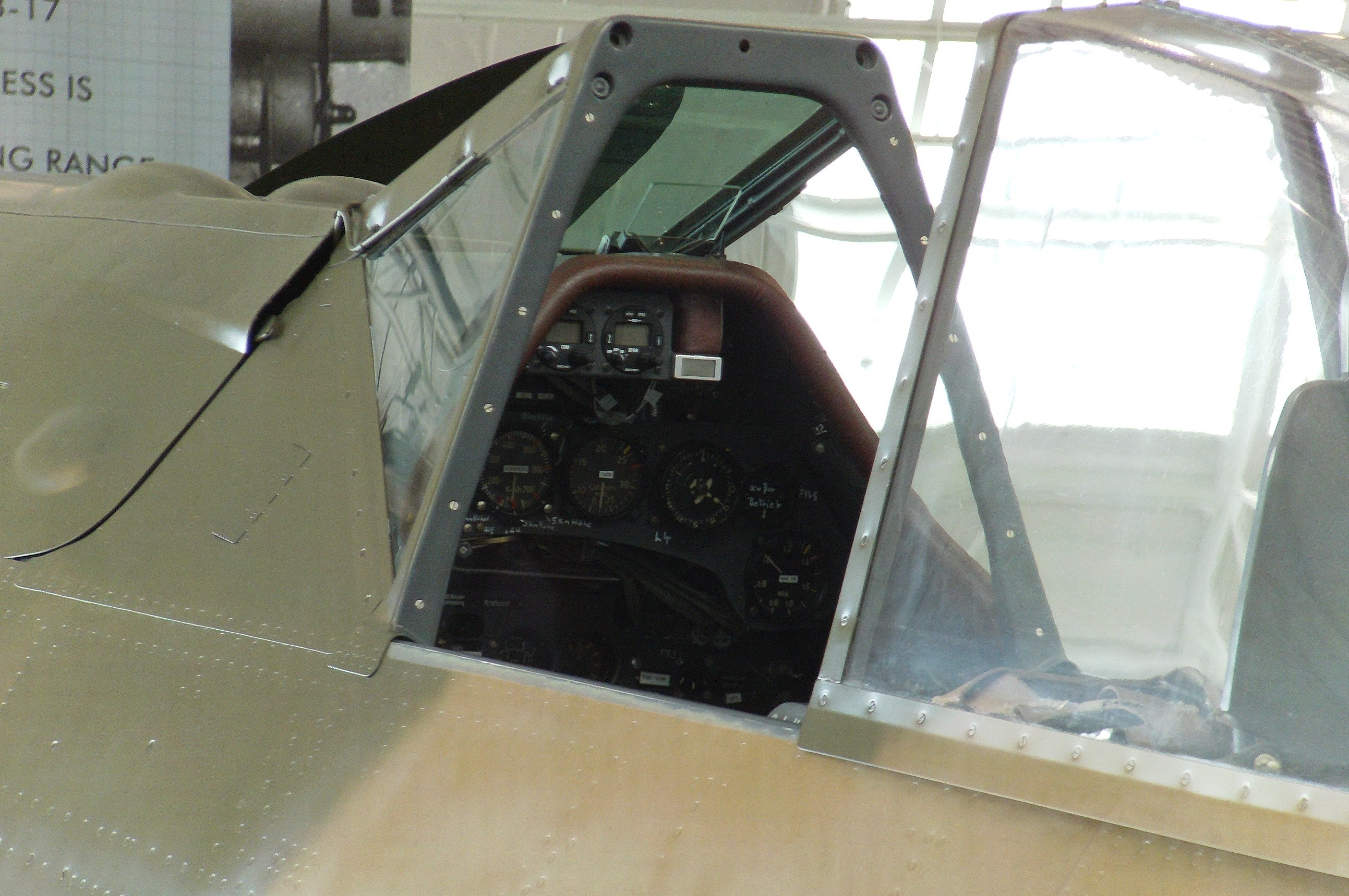 Focke-Wulf 190 A-5 - Paine Field - USA (2012) - Pilot area.